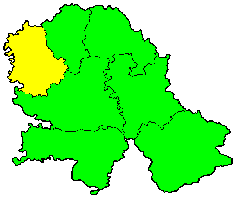 Map of West Backa